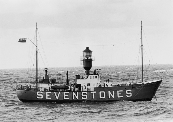 Reproduction ID: H3123 Maker: Unknown Date: circa 1950